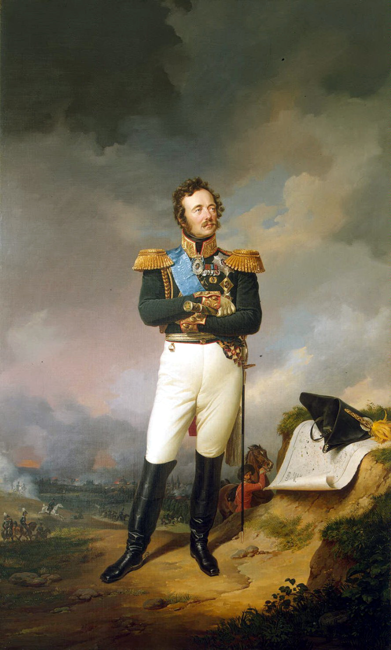 Portrait of Ivan Paskevich (1782-1856)